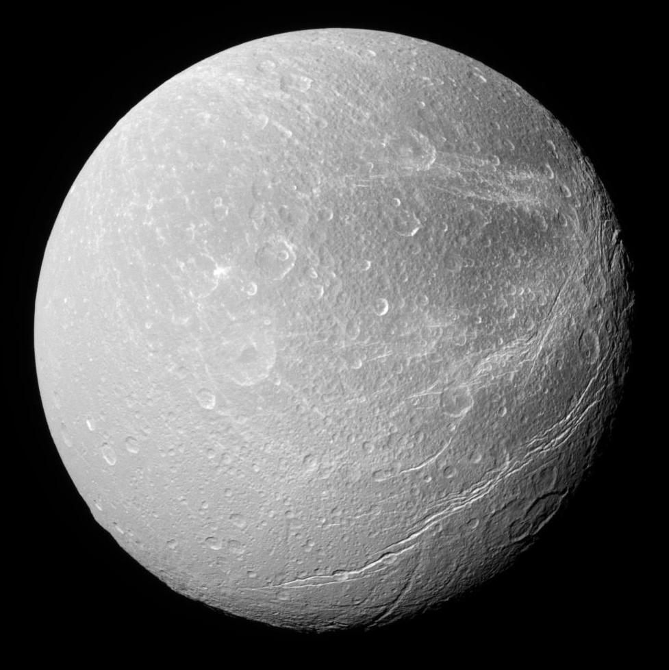 This southerly view of Dione shows enormous canyons extending from mid-latitudes on the trailing hemisphere, at right, to the moon's south polar region. This view looks toward the Saturn-facing side of Dione (1,126 kilometers, or 700 miles across) and is centered on 22 degrees south latitude, 359 degrees west longitude. North on Dione is up; the moon's south pole is seen at bottom. The image was taken in visible light with the Cassini spacecraft narrow-angle camera on Feb. 8, 2008. The view was obtained at a distance of approximately 211,000 kilometers (131,000 miles) from Dione and at a Sun-Dione-spacecraft, or phase, angle of 20 degrees. Image scale is 1 kilometer (0.6 mile) per pixel.